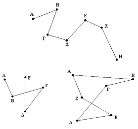 Polygonal chains